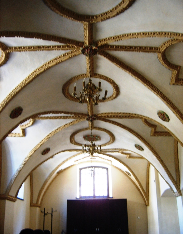 The Synagogue in Zamość (inside, after repair; 2011 - Center "Synagogue")